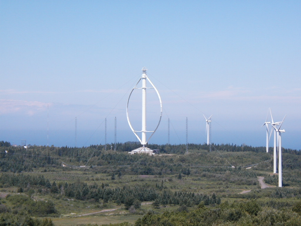 World highest Darrieus wind generator Éole, Gaspé peninsula, Quebec, Canada